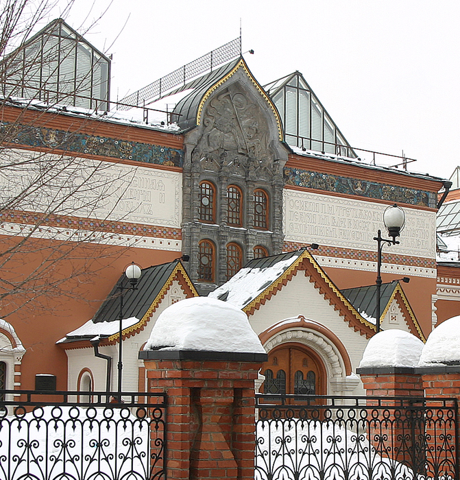 State Tretyakov Gallery in Lavrushinsky pereulok (Description is copied from the English Wikipedia, the original was by User:Vkostin and was submitted at 10:32, 15 April 2006 (UTC) )